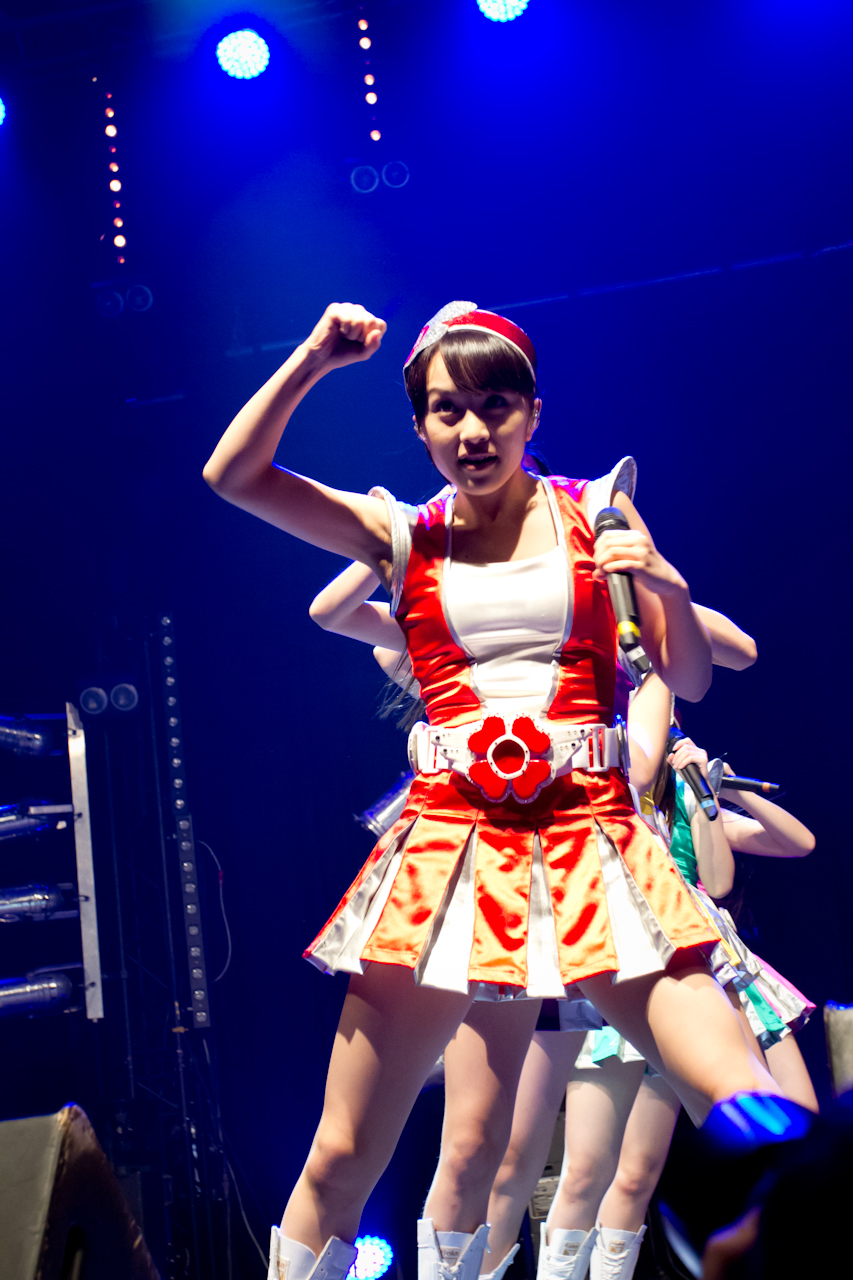 Japan Expo 13 - 2012 Cover pics by Dj ph All sets here : bit.ly/LHdWLq